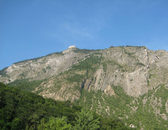 Col du Télégraphe